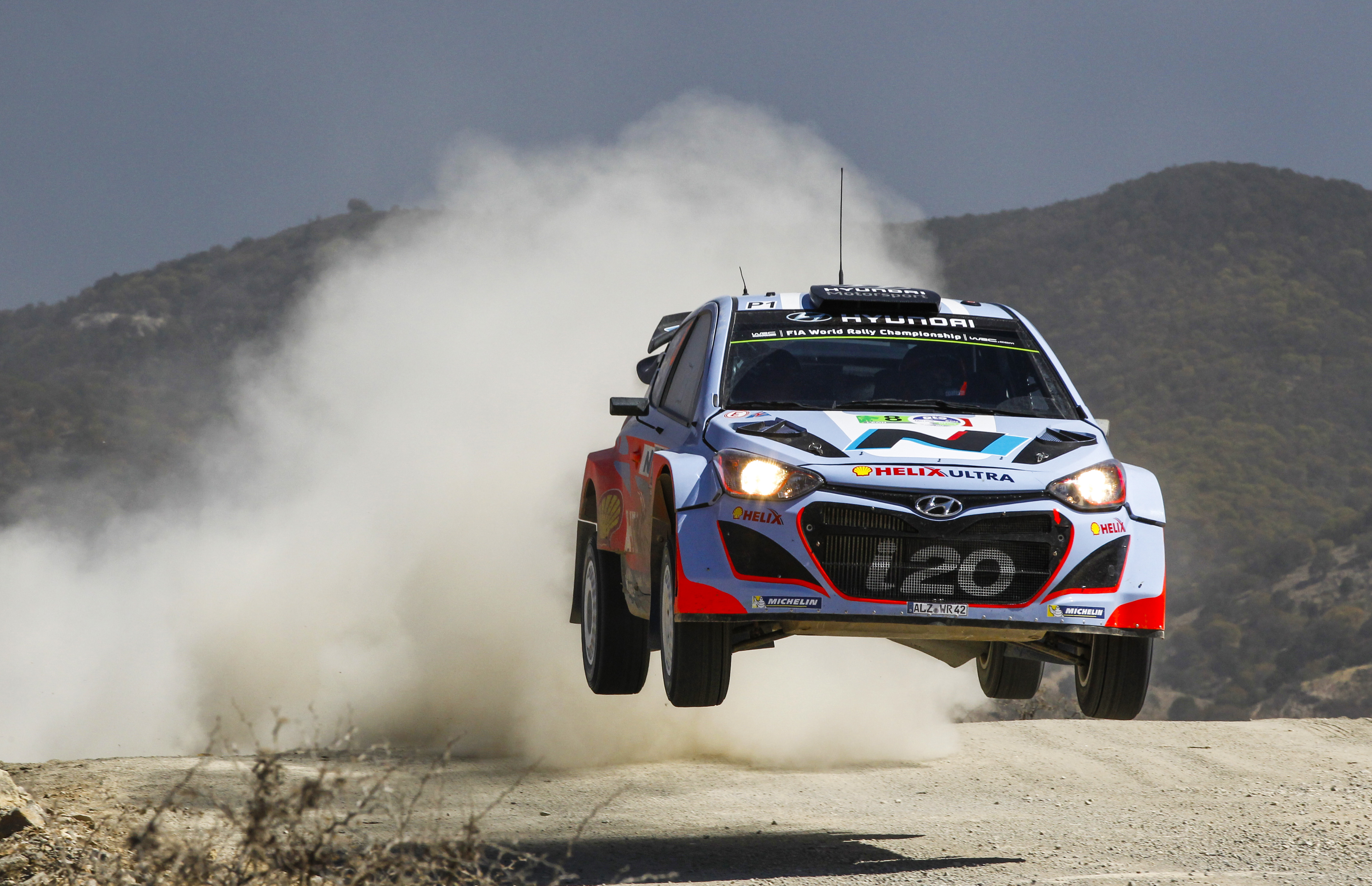 Chris Atkinson and co-driver Stéphane Prévot in their Hyundai i20 WRC at the 2014 Rally Mexico.